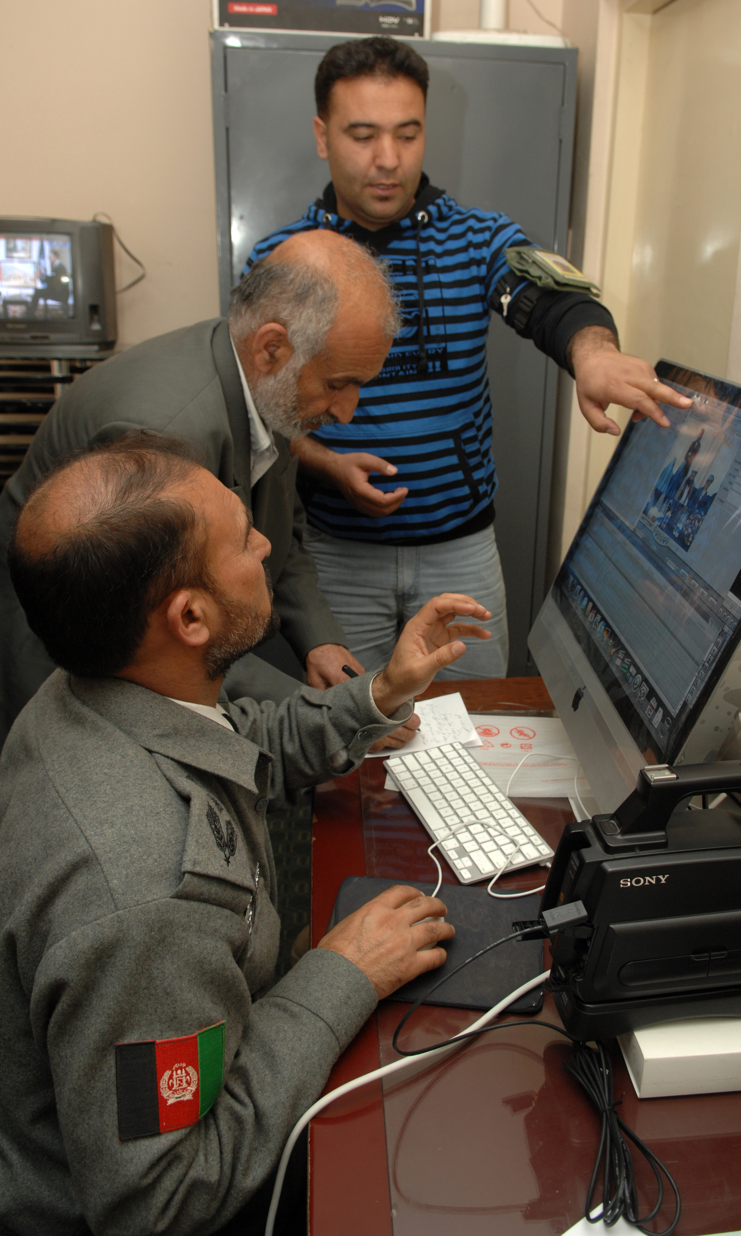 KABUL, Ministry of Interior (March 30) -- Fraidoon Saheebzada, NATO Training Mission-Afghanistan videographer, translator and Afghan National, trains Mahamad Abrahim (center) and Abdul Majeed (bottom), broadcasters from MOI Public Affairs, on non-linear editing and story telling. NTM-A/PAO videographers have reoccuring mentoring and training sessions with the MOI/PAO every Monday and Tuesday. (U.S. Air Force photo by Staff Sgt. Jeff Nevison)